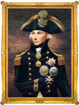 contemporary portrait of Lord Nelson